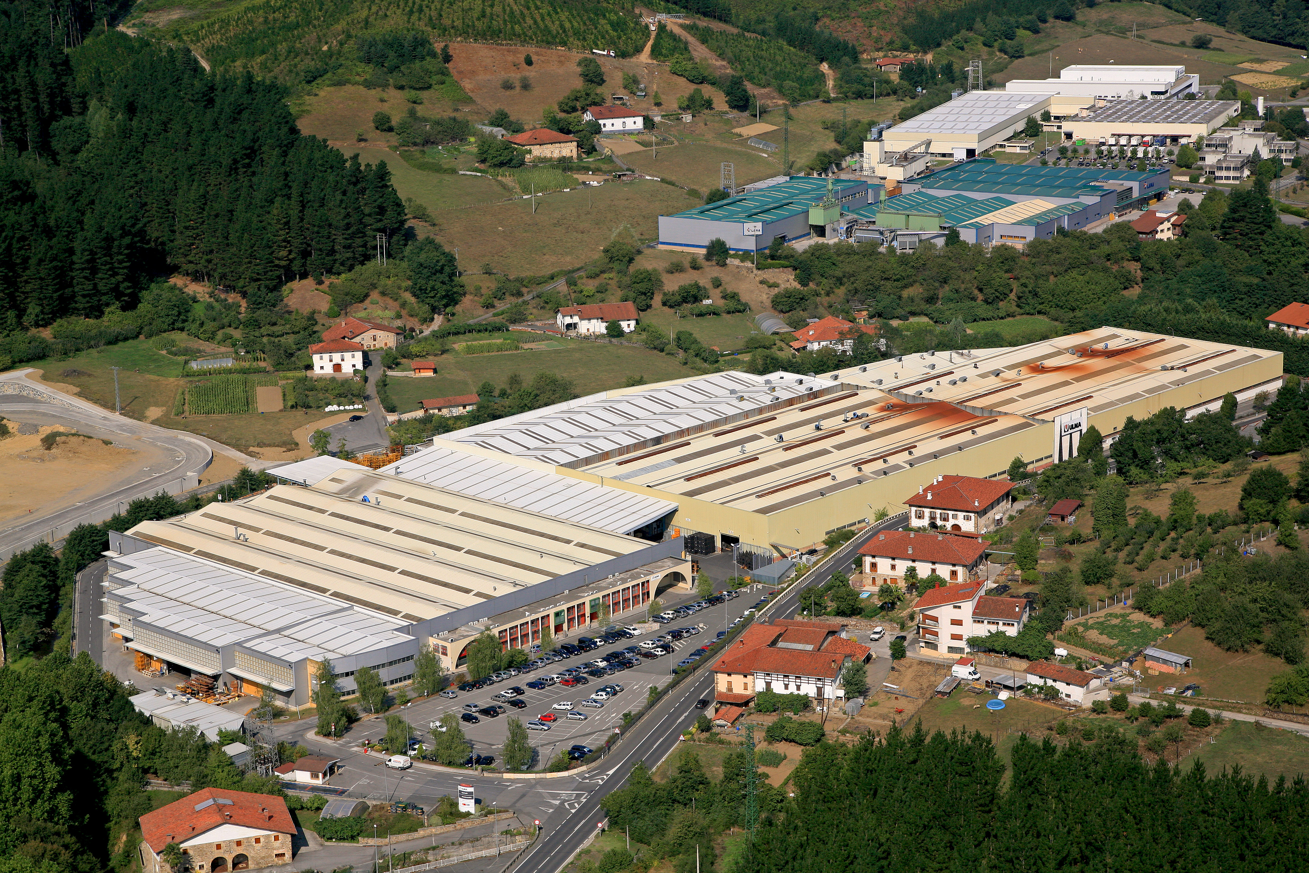 Instalaciones de ULMA en Oñate